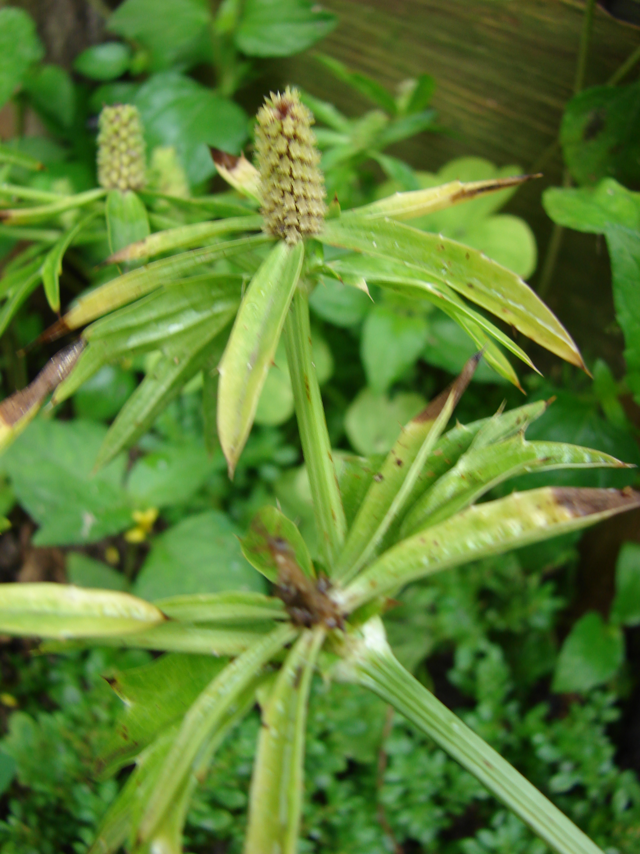 Unknown sp. (plant that smells like cilantro). Location: Midway Atoll, Water plant Sand Island